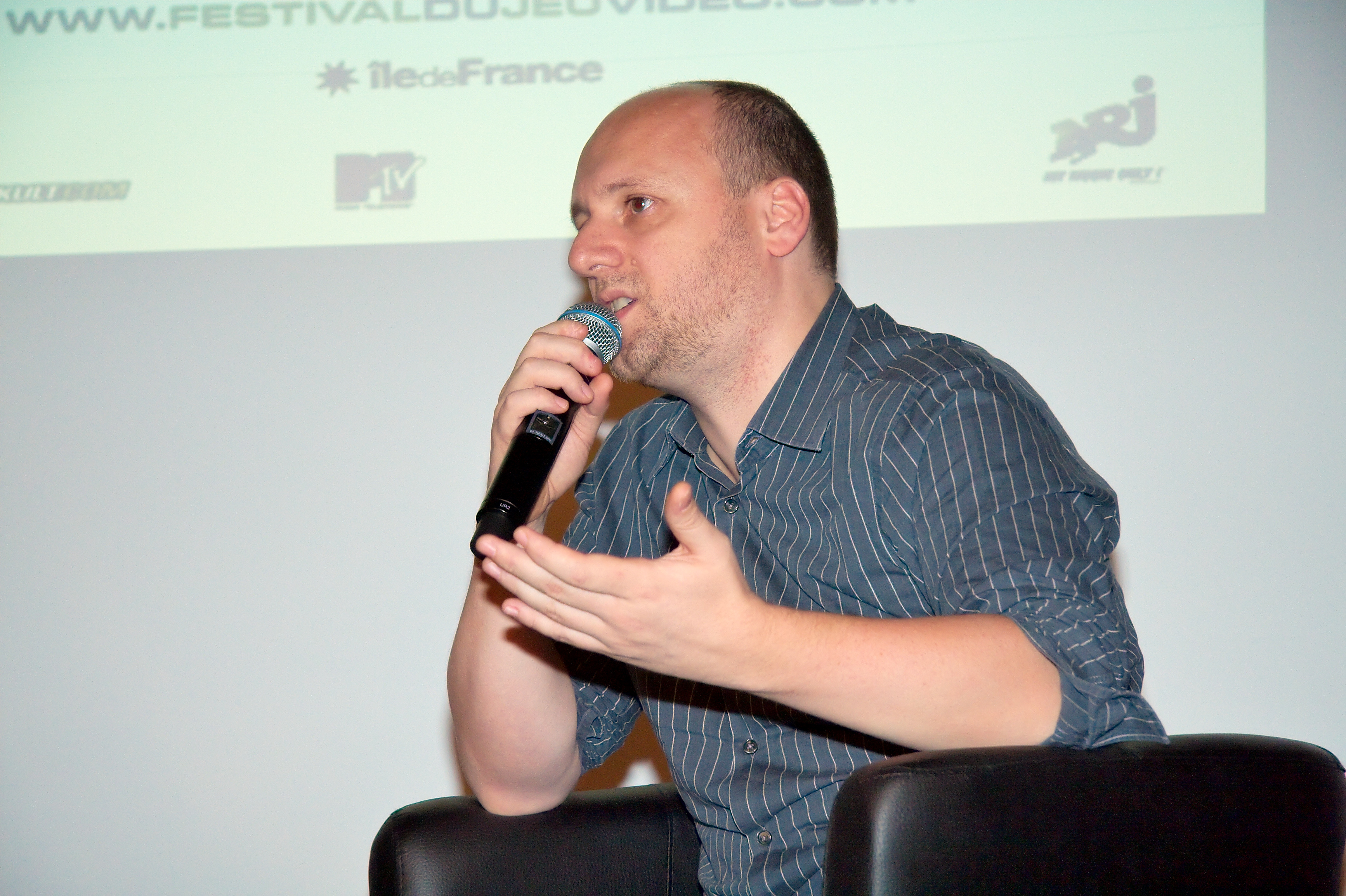 Conference with David Cage at Festival du jeu vidéo 2008 (Paris, France).